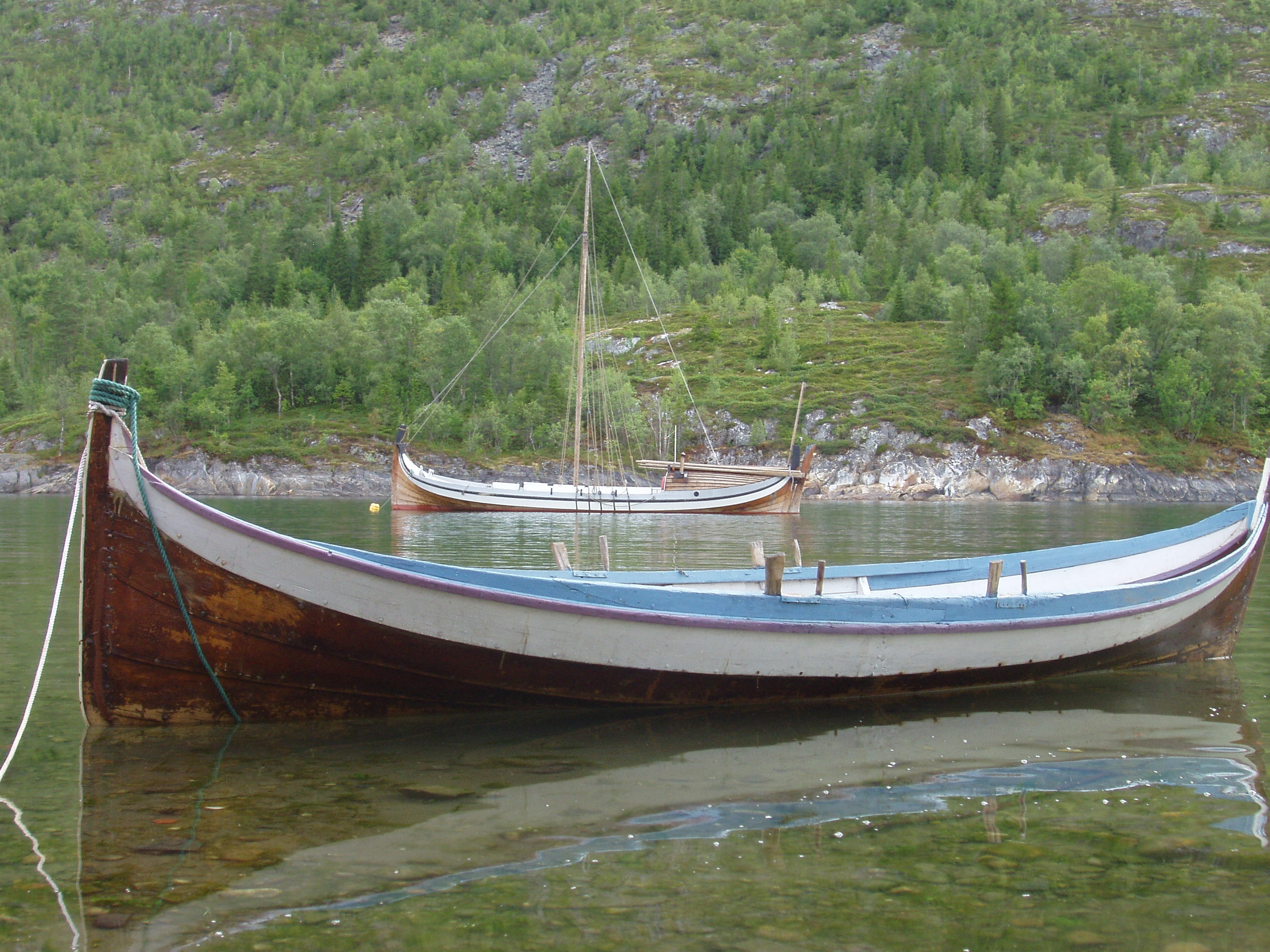 Bindalsfæring and Fembøring in the river Vefsna, Norway